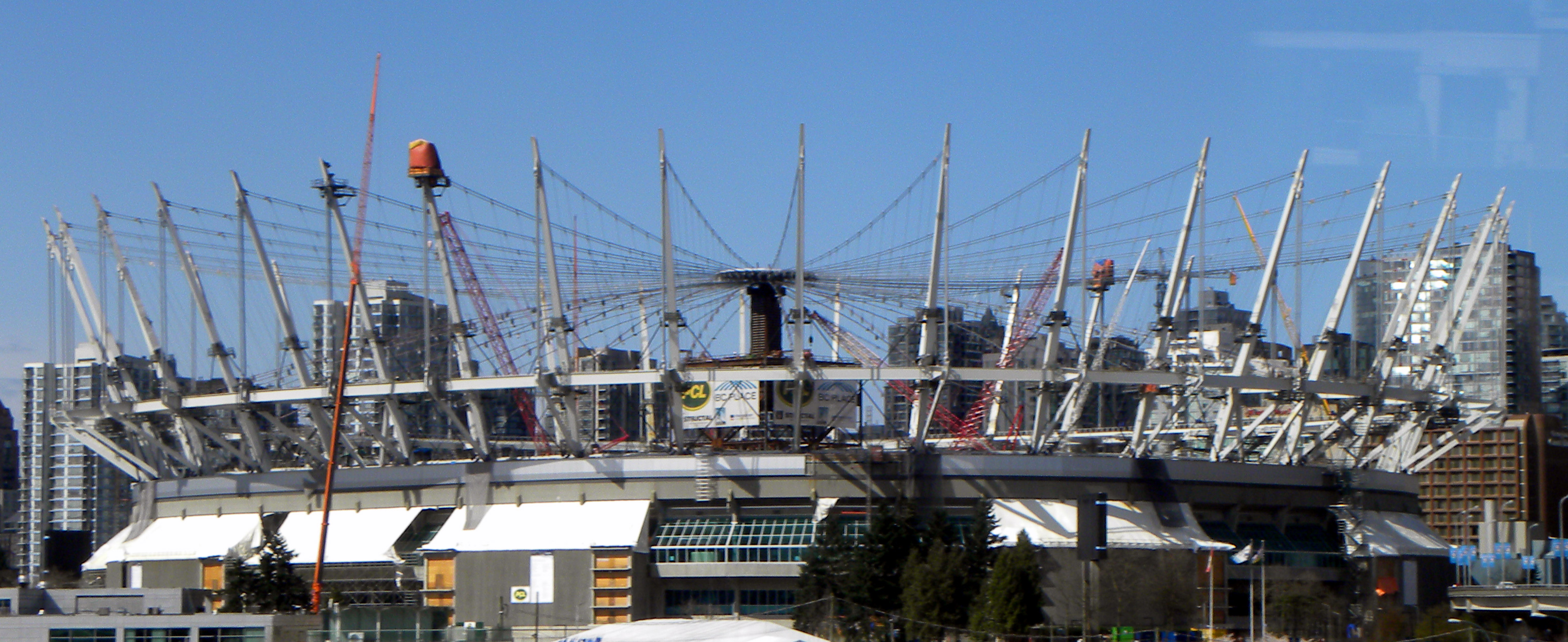 BC Place Stadium in Vancouver BC, with a new roof being constructed, estimated completion September 2011, Photo taken in April 2011